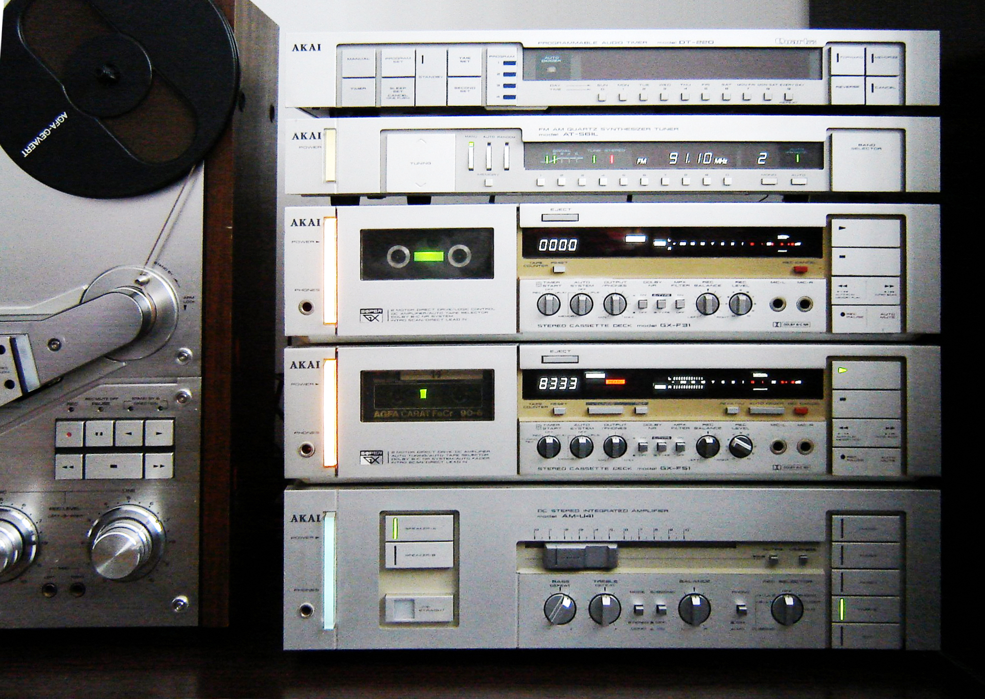 AKAI stack of vintage machines